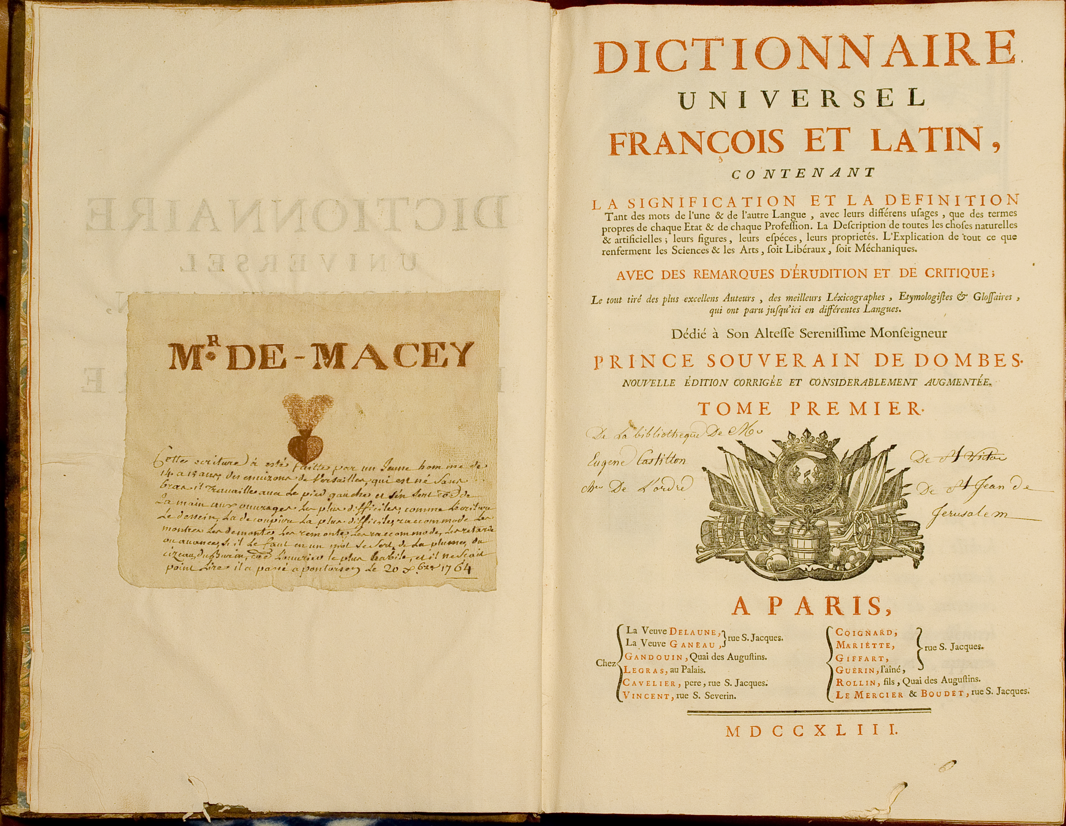 Dictionary of Trévoux - First page of the first Tome (1743's edition).